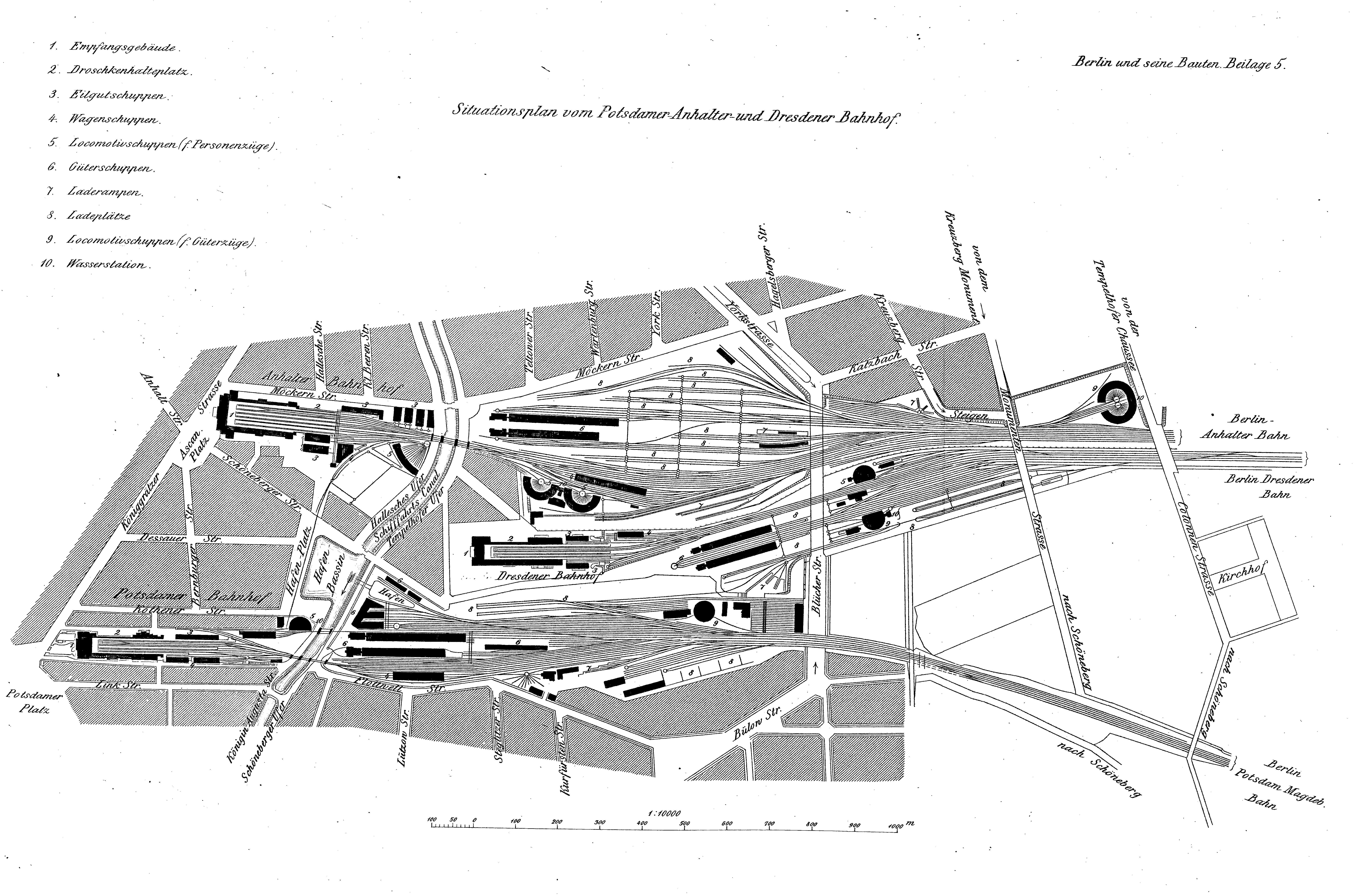 Plan of the railway site combining the Berlin Potsdamer Bahnhof, Berlin Anhalter Bahnhof and the planned Berlin Dresdner Bahnhof in or before 1877. The Dresdner Bahnhof had actually not been built